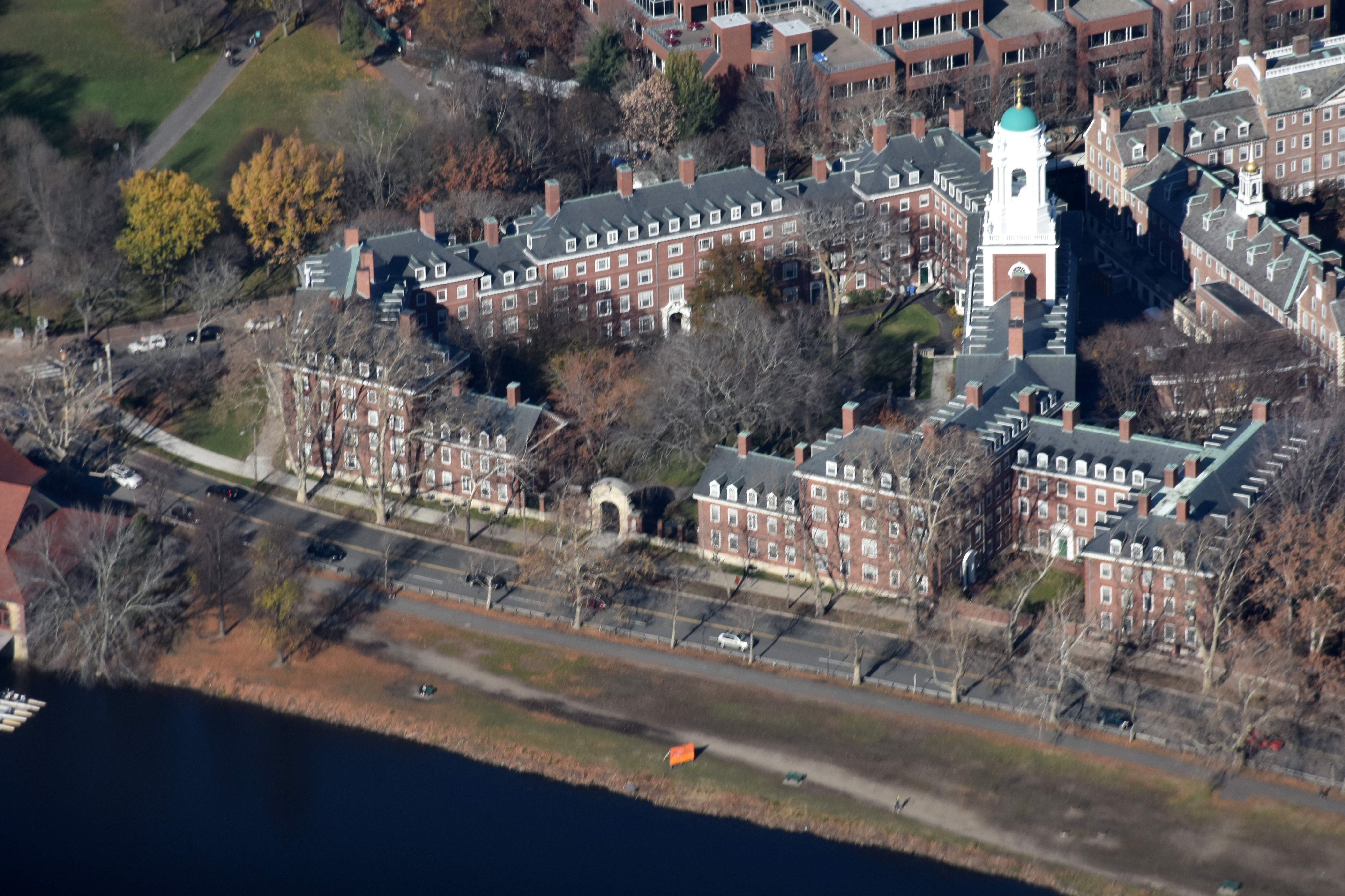 Aerial view of Eliot House, an undergraduate residential college of Harvard University, taken from the south.